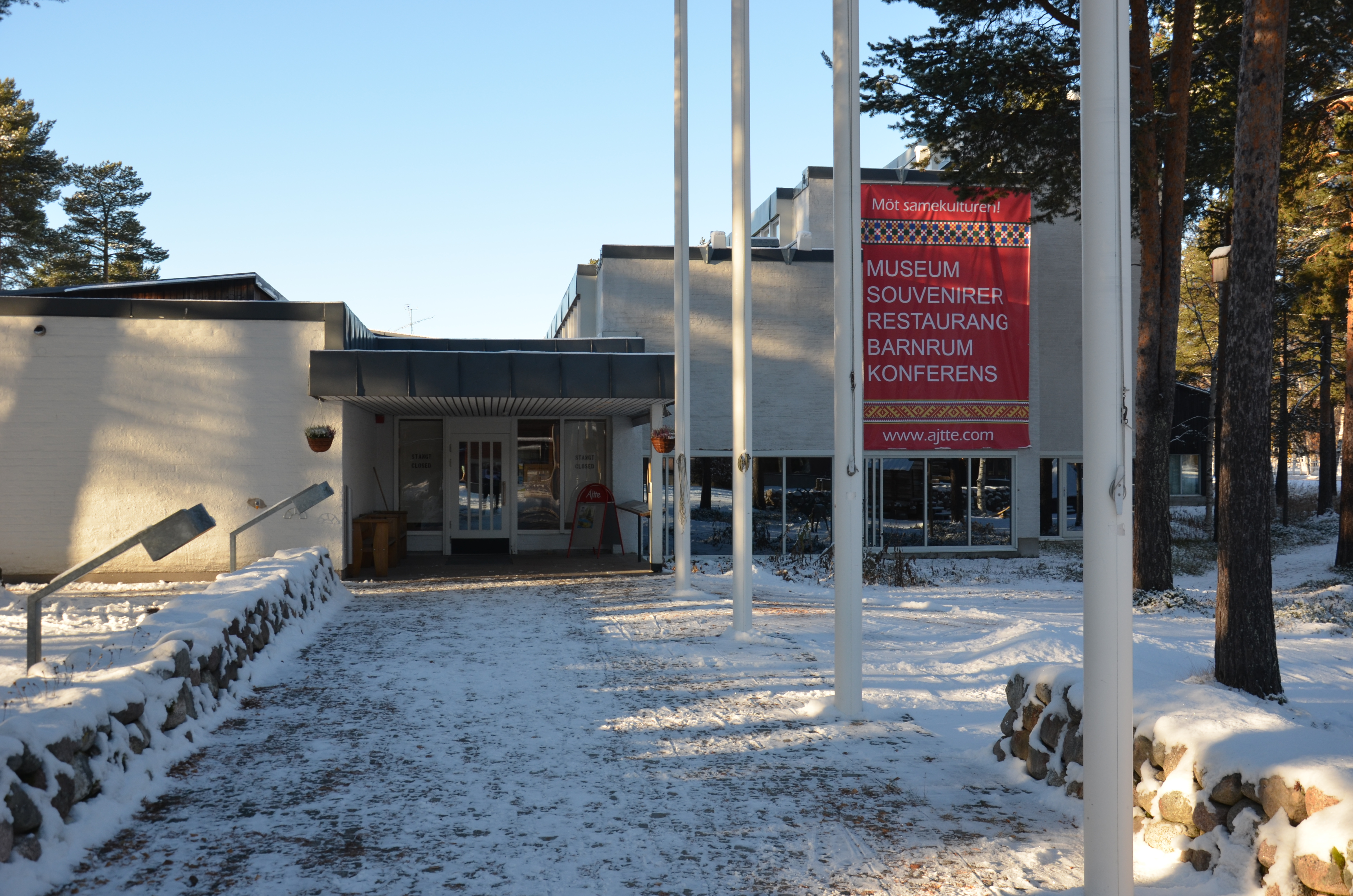 Ingången till Ajtte, Svenskt fjäll- och samemuseum i Jokkmokk